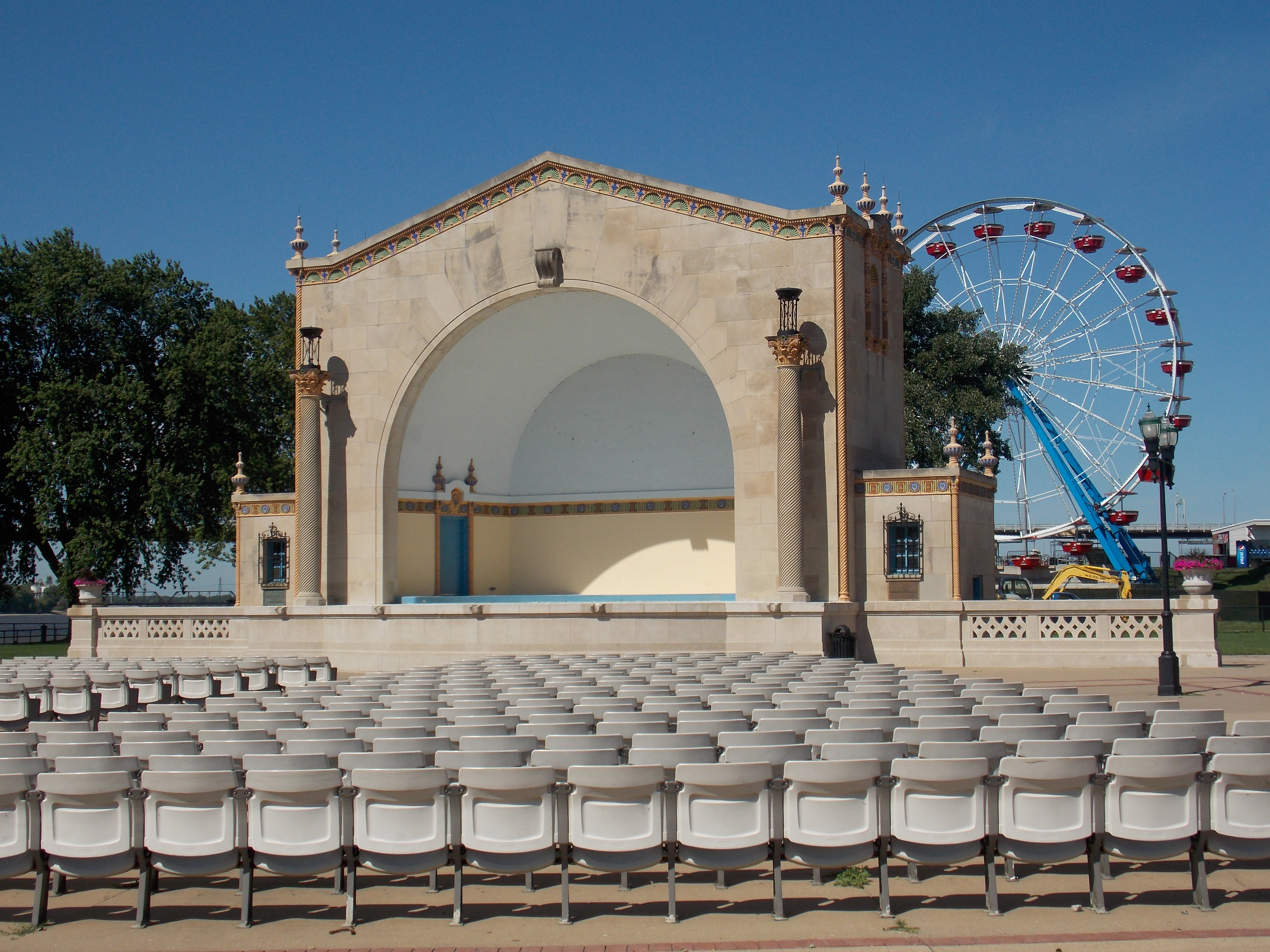 The W.D. Petersen Memorial Music Pavilion in Le Claire Park in Davenport, Iowa is listed on the National Register of Historic Places.